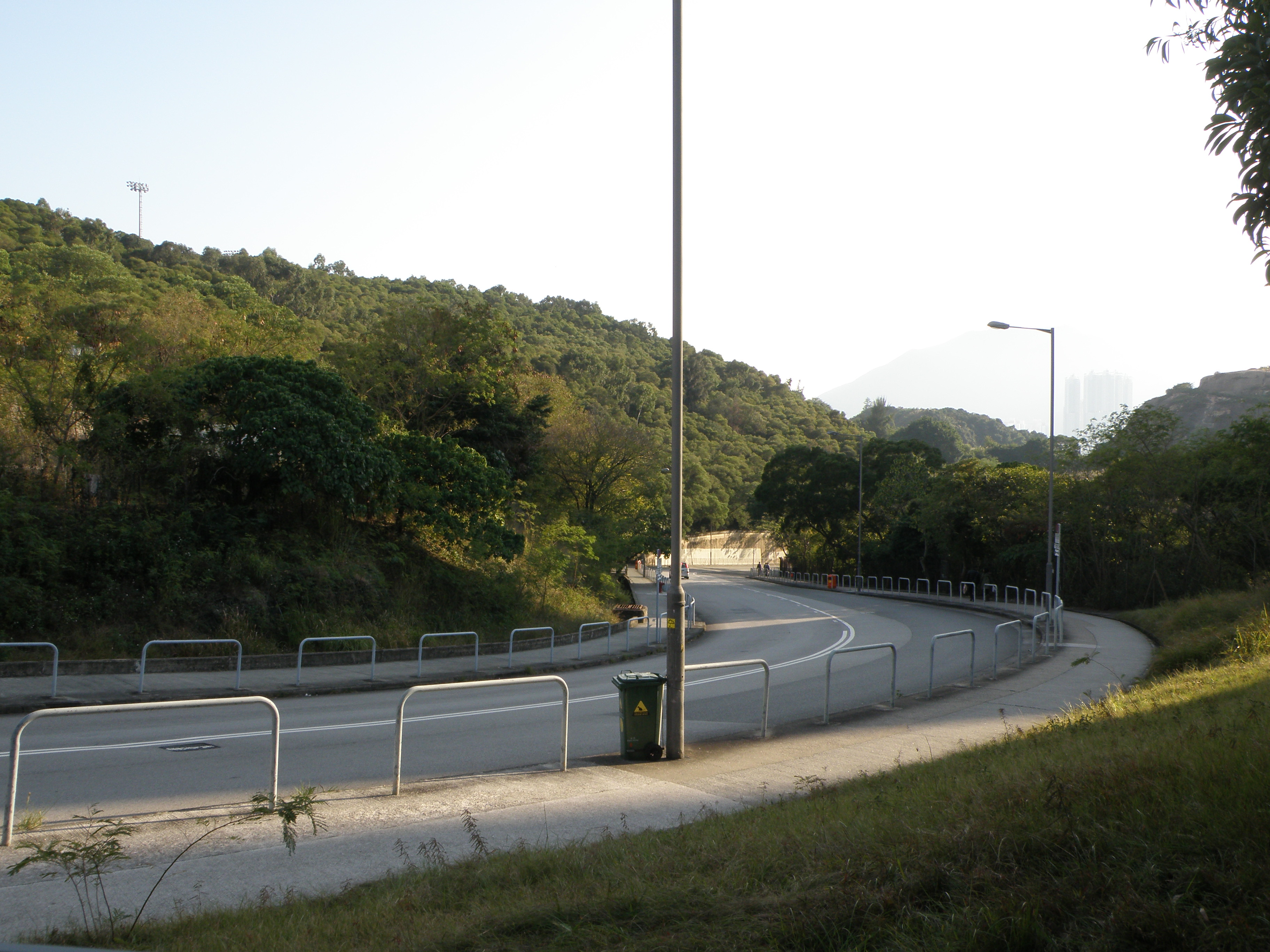 Sin Fat Road in Lam Tin, Hong Kong.